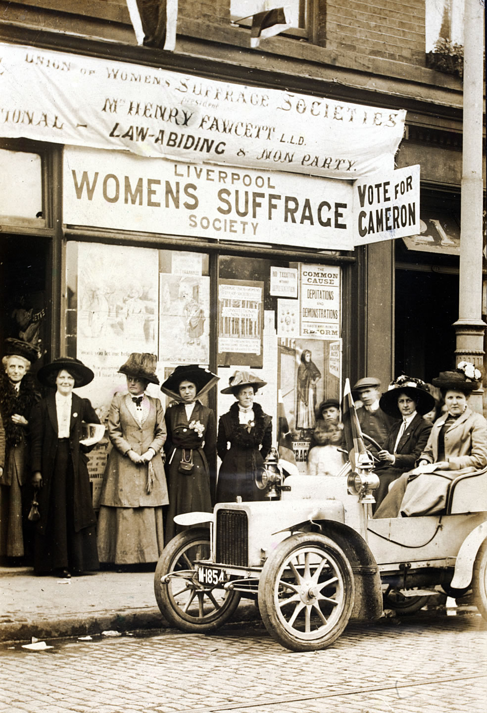 Members of Liverpool Womens' Suffrage Society campaigning in Smithdown Road for Knowsley by-election, Eleanor Rathbone is standing in the lighter coloured dress